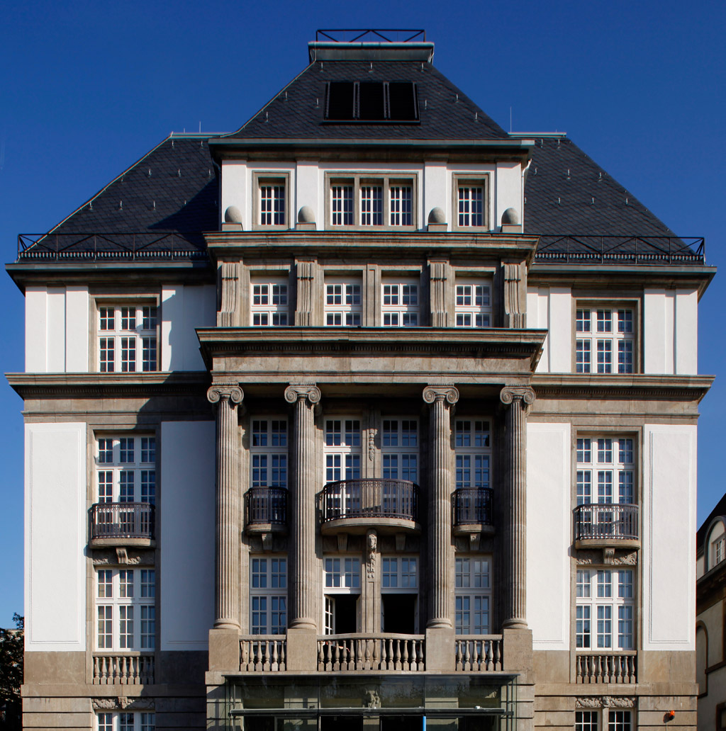 The Deutsches Filmmuseum in Frankfurt am Main, Photo: Uwe Dettmar